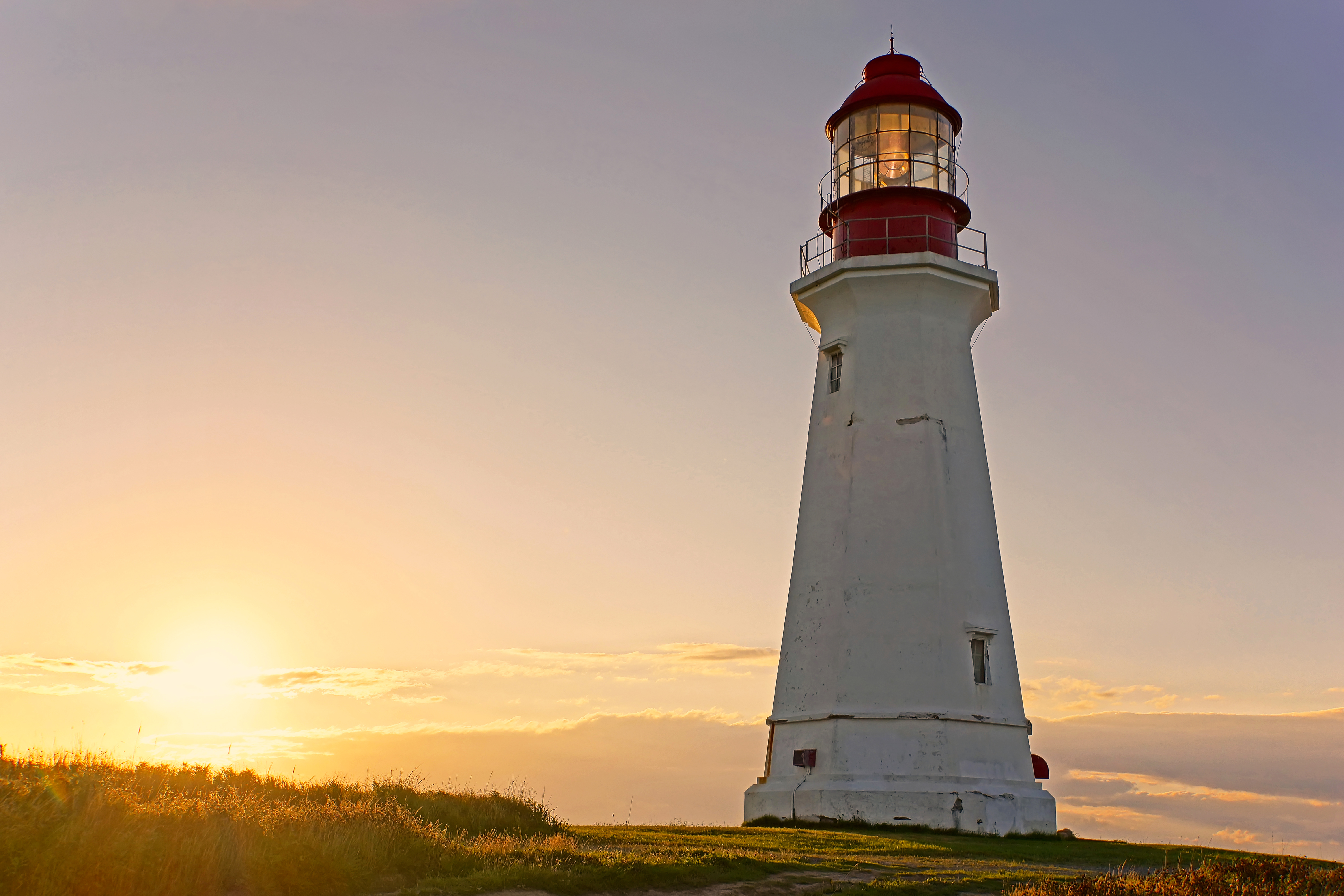 The first lighthouse was an octagonal wood tower built in 1832, 21 meters (69ft) high. It had a round iron lantern and a 3rd order double bullseye lens manufactured in France. This lighthouse was replaced in 1936 by the current concrete tower, but the original lantern and lens were retained. It has the only remaining circular lantern in Nova Scotia. Location: Northeast entrance to Sydney Harbour Began and Lit: 1938 Tower Height: 22 meters (72ft) Light Height: 23.8 meters (78ft) above water level Characteristic: Flashing White (1992) Still operating: True Region: Cape Breton Island Scenic Drive: Marconi Trail